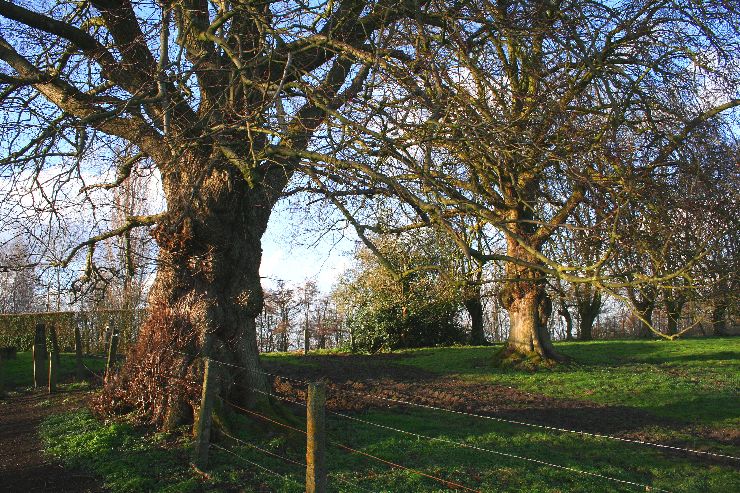 Mainvault (Belgium), the two remarkable linden trees of the « Mont de Mainvault ».